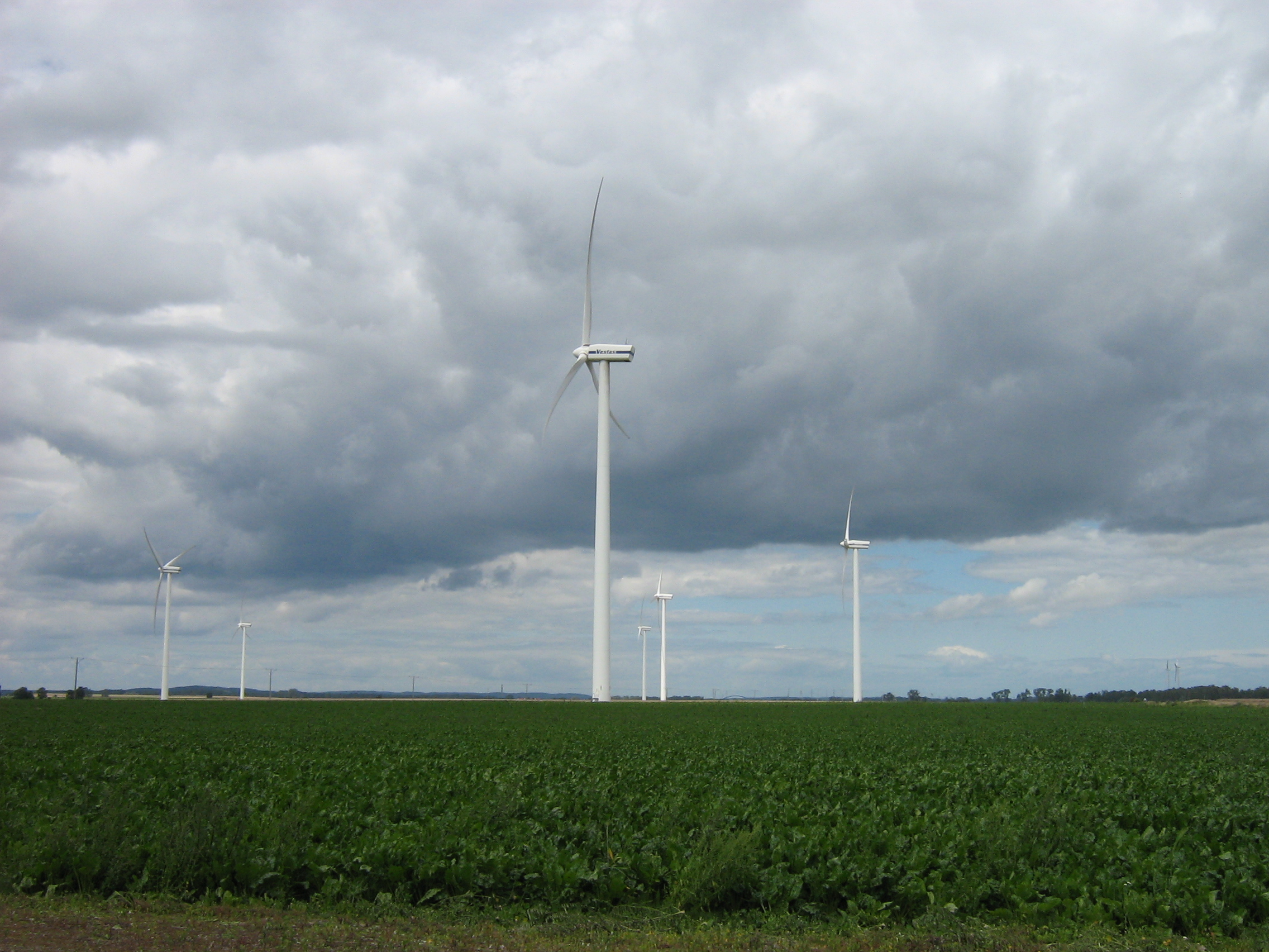 Wind farm near the village of Zagórze in Poland